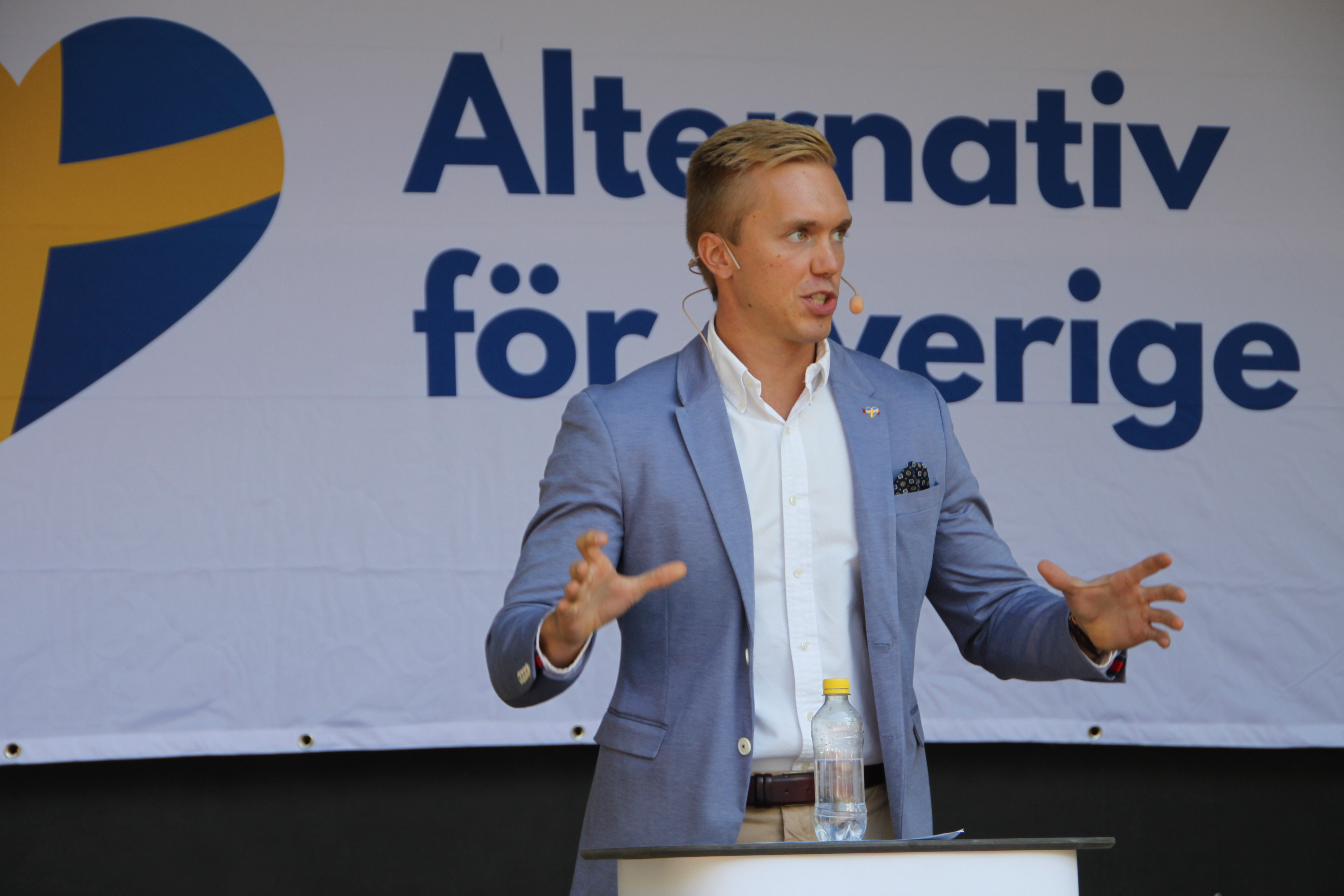 William Hahne speaks at Alternative for Sweden's meeting on Långholmen in Stockholm on 11 August 2018.